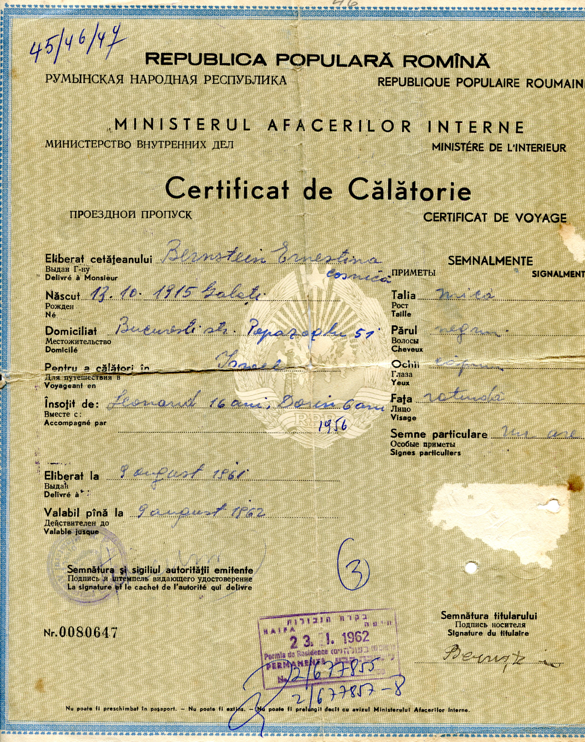 Laissez-passer, a pass, especially one used instead of a passport. Romania 1956. This particular laissez-passer was a document to allow a Jew to go to Israel.